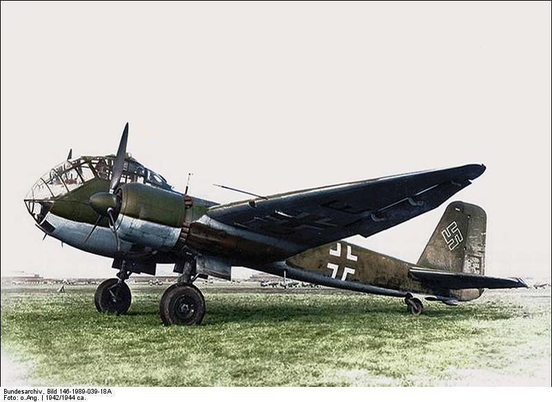 This is a retouched picture, which means that it has been digitally altered from its original version. Modifications: recolored. The original can be viewed here: Bundesarchiv Bild 146-1989-039-18A, Flugzeug Junkers Ju 188.jpg: . Modifications made by Ruffneck88. Flugzeug Junkers Ju 188 Photographer UnknownArchive description Description provided by the archive when the original description is incomplete or wrong. You can help by reporting errors and typos at Commons:Bundesarchiv/Error reports. Flugzeug Junkers Ju 188 (Seriennummer 10001) auf Flugplatz stehendTitle Flugzeug Junkers Ju 188 Original caption Junkers Ju 188 E-1, Kampfflugzeug Werkfoto Junkers (MBB) 188/6Date 1942date QS:P571,+1942-00-00T00:00:00Z/9Collection German Federal Archives Native nameDas BundesarchivLocationKoblenz (headquarters)Coordinates50° 20′ 32.71″ N, 7° 34′ 21.22″ E Established1946Web page control : Q685753 VIAF: 137346469 ISNI: 0000 0004 0555 2728 LCCN: n92025526 NLA: 36455393 Open Library: OL55798A WorldCat institution QS:P195,Q685753Current location Sammlung von Repro-Negativen (Bild 146)Accession number Bild 146-1989-039-18A Source This image was provided to Wikimedia Commons by the German Federal Archive (Deutsches Bundesarchiv) as part of a cooperation project. The German Federal Archive guarantees an authentic representation only using the originals (negative and/or positive), resp. the digitalization of the originals as provided by the Digital Image Archive. Junkers Ju 188 E-1, Kampfflugzeug Werkfoto Junkers (MBB) 188/6